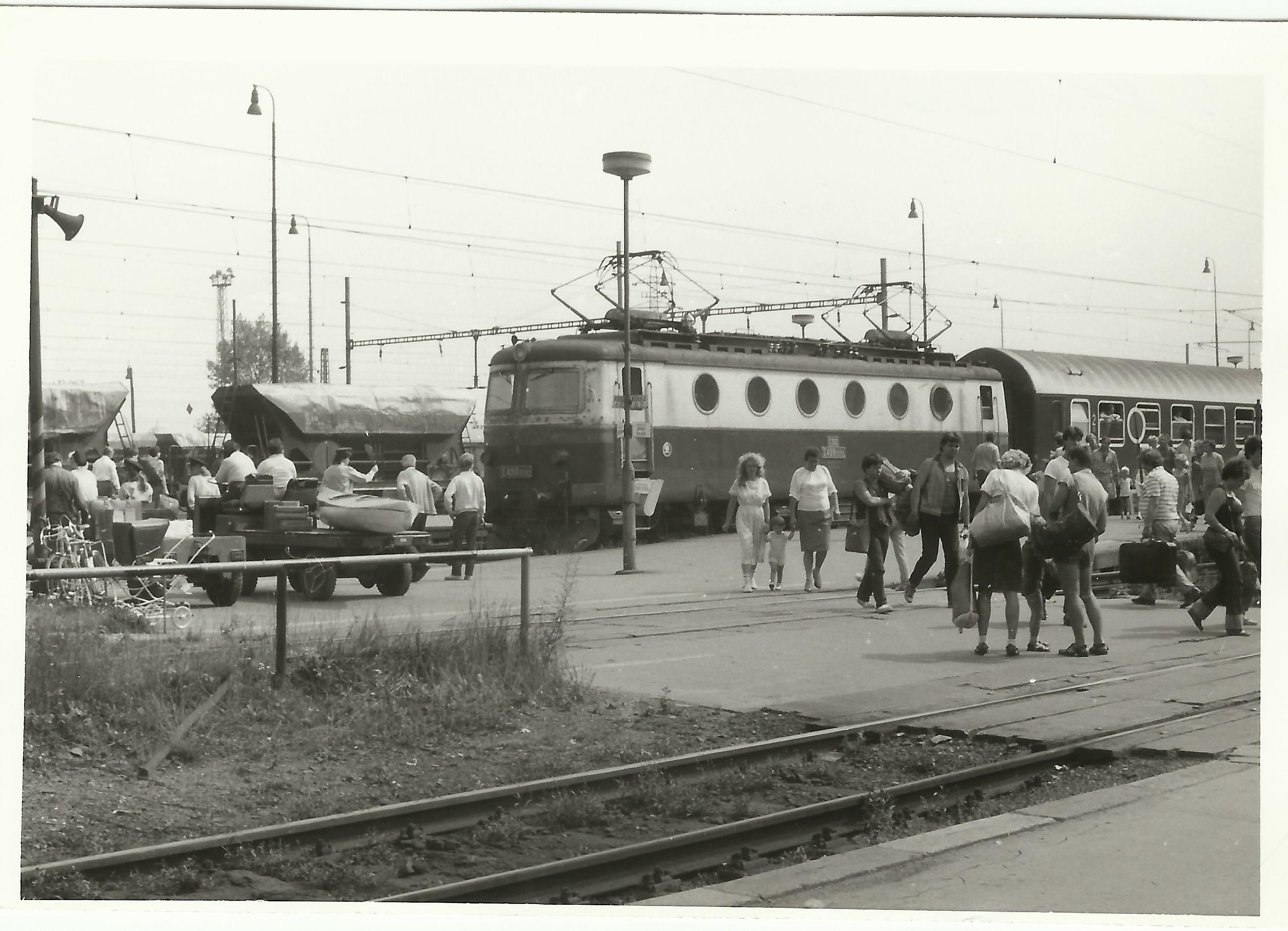 E 499 0032, Svinov 1986 (Czechoslovakia).